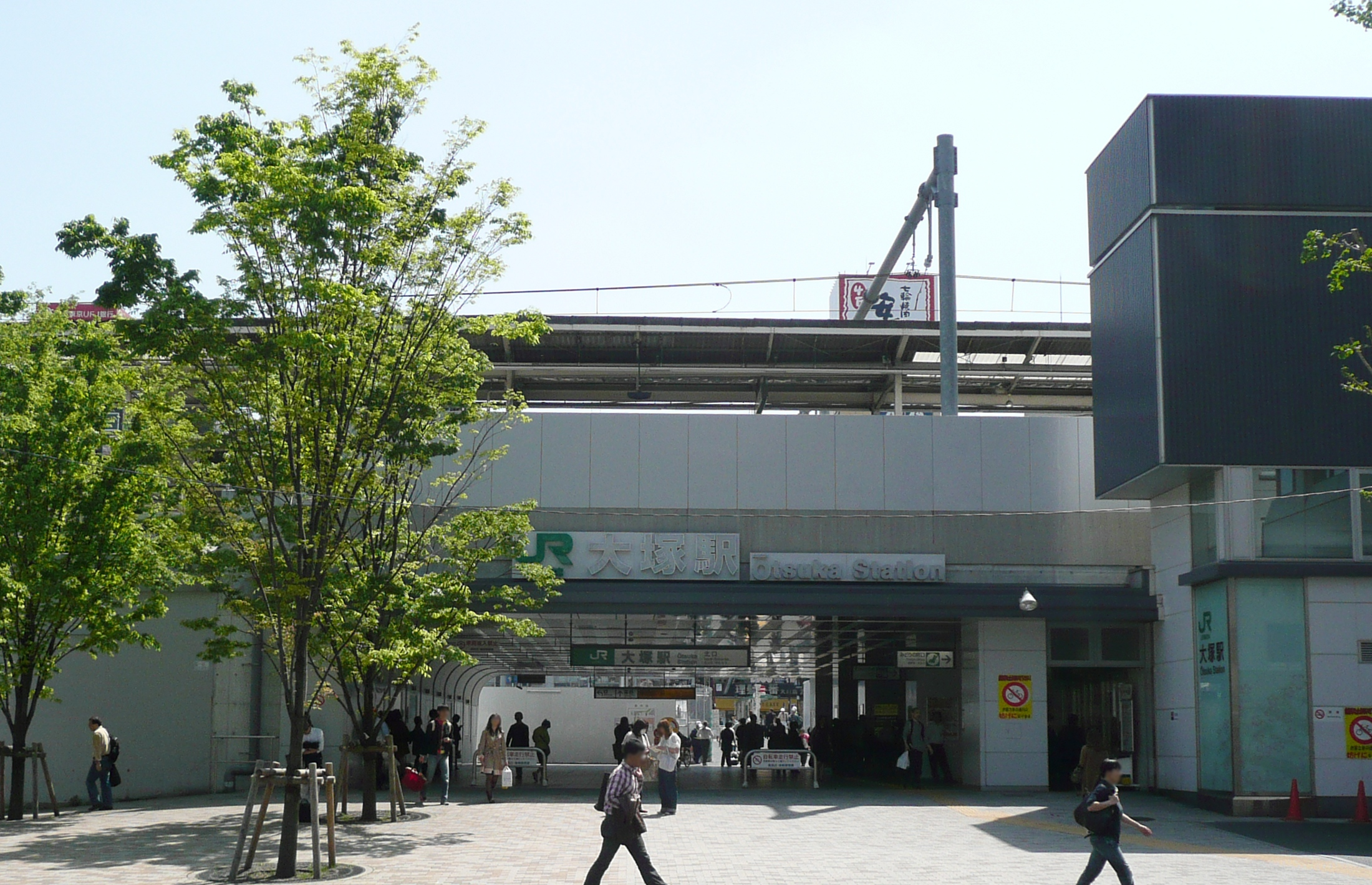 The north entrance of Otsuka Station in Tokyo